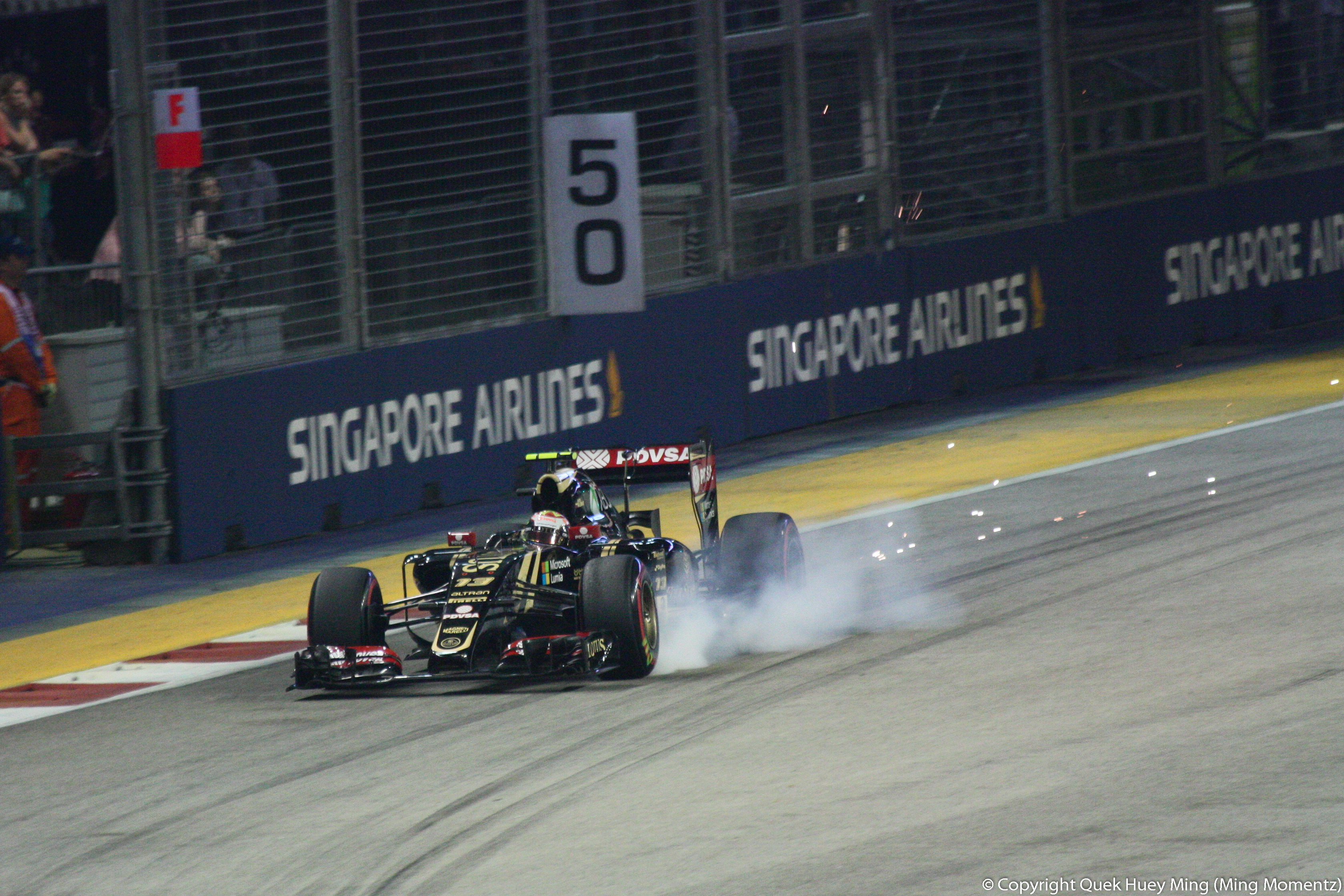 Pastor Maldonado at the 2015 Singapore Grand Prix